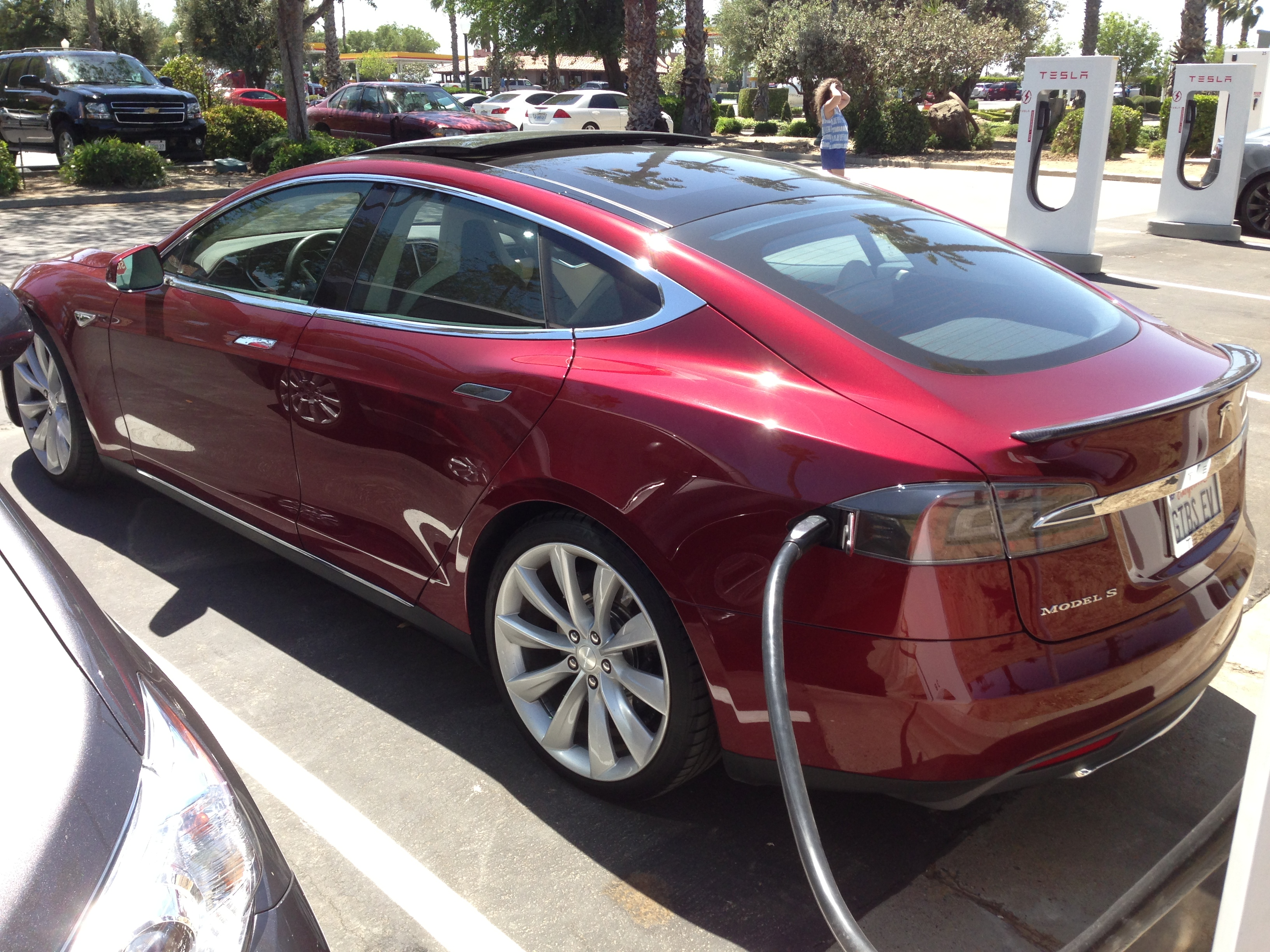 A Tesla Model S connected to a high speed Supercharger station at the Harris Ranch on Interstate 5 in California's Central Valley. The charging is free for Model S owners.